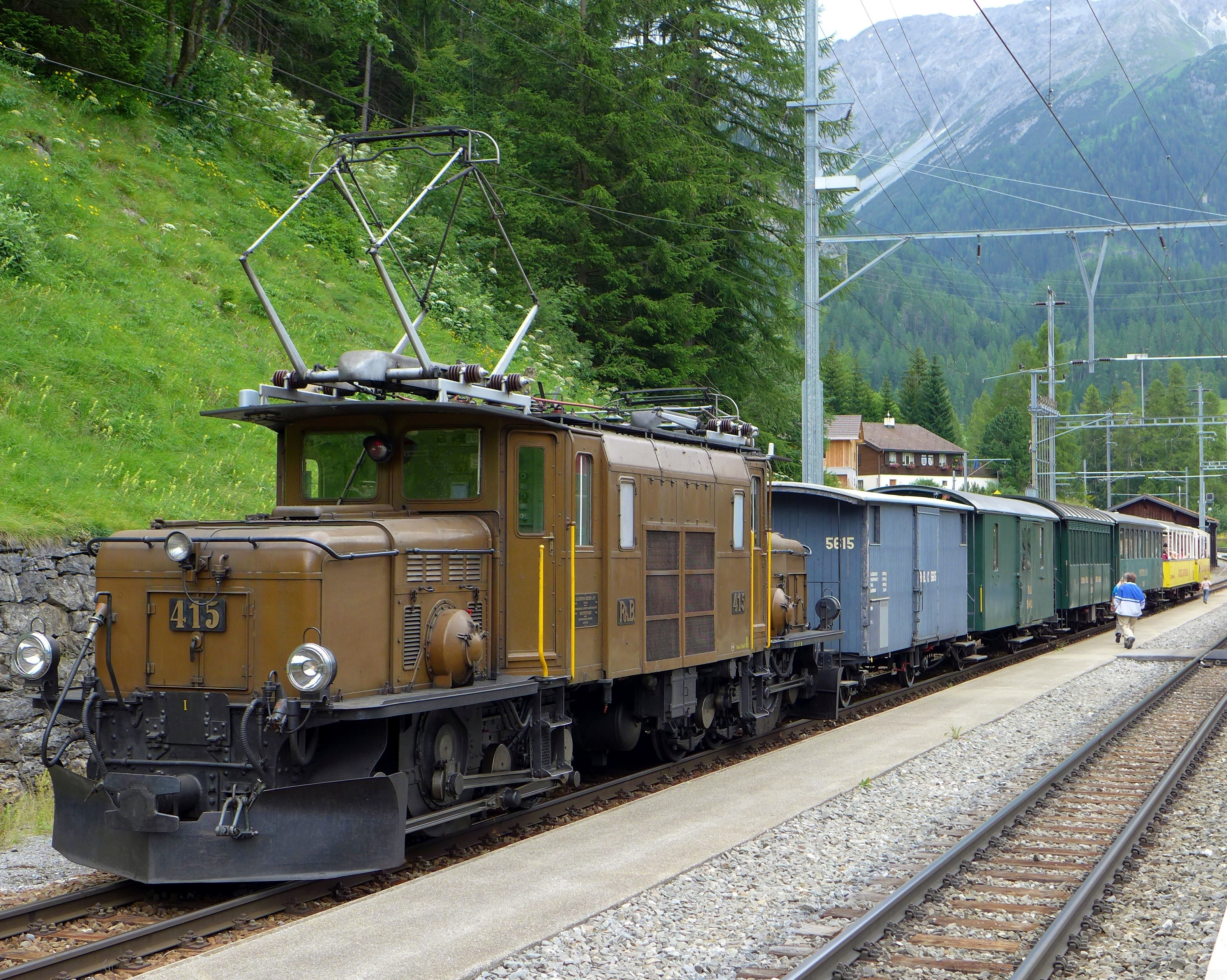 Rhaetian Railway class Ge 6/6 I electric locomotive no. 415 awaits departure from Bergün/Bravuogn railway station, Switzerland, with a heritage train.